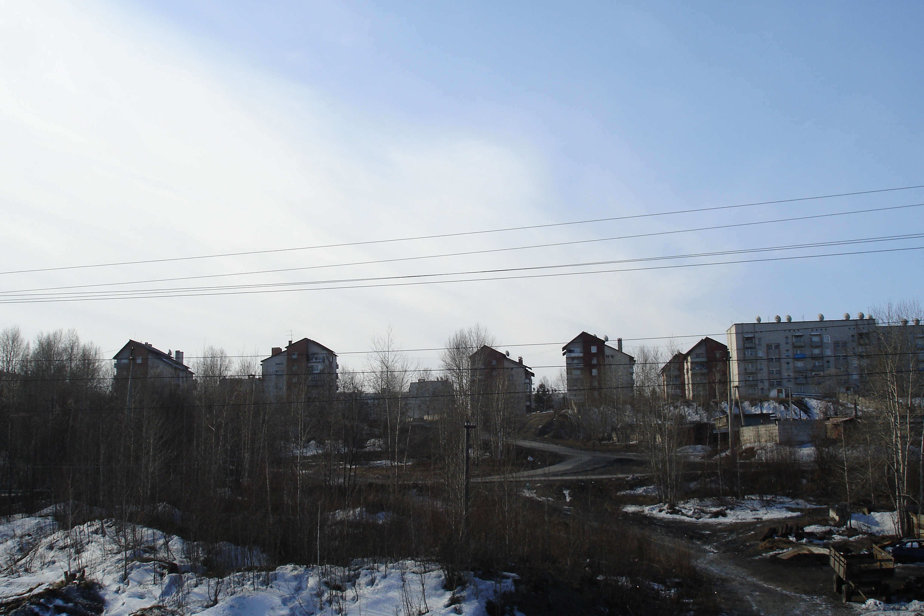 Novy Urgal - urban-type settlement in Verkhnebureinsky District of Khabarovsk Krai, Russia. View from railway line.